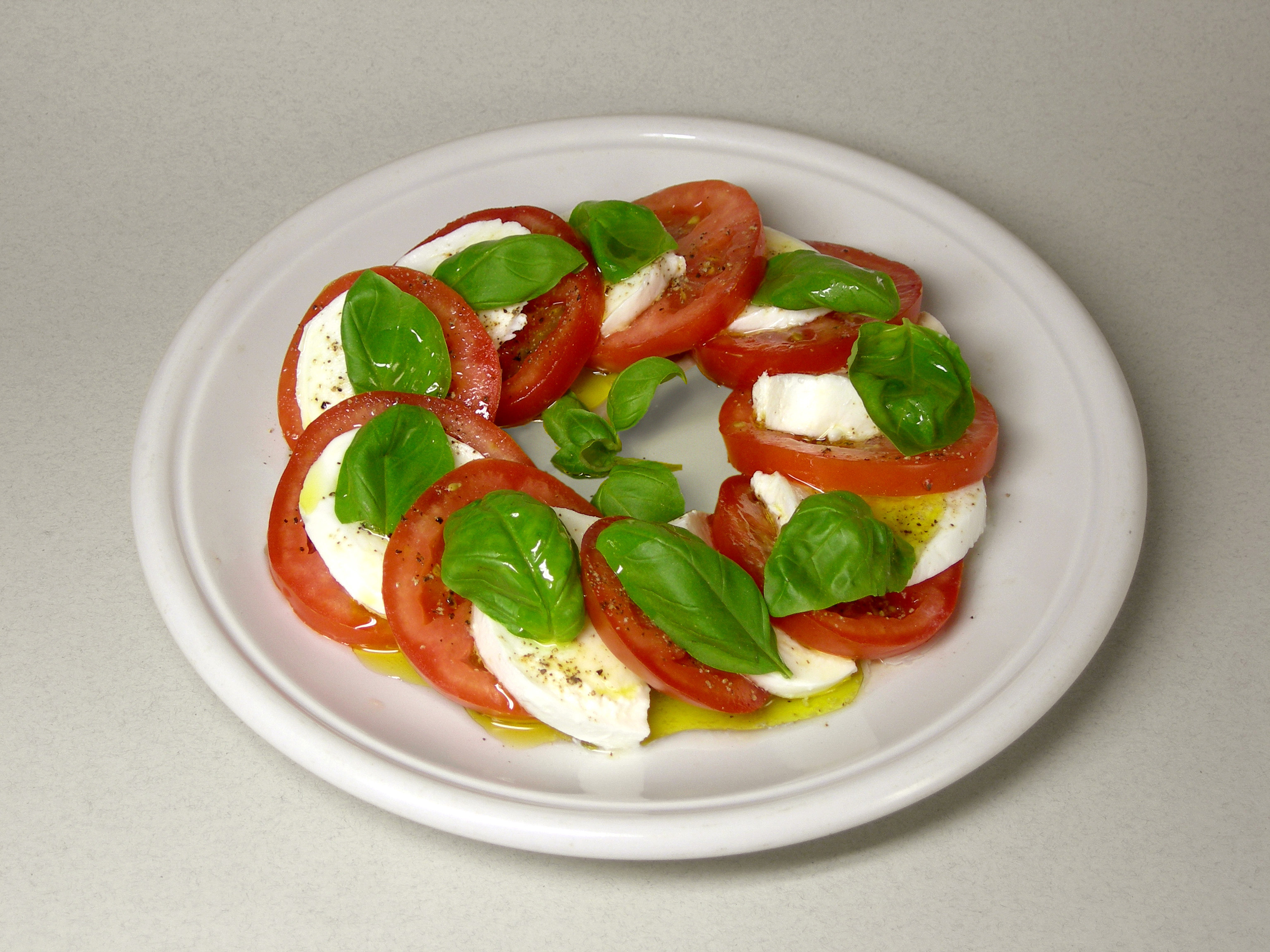 Insalata caprese, made from mozzarella, tomatoes, olive oil and basil. Own work.